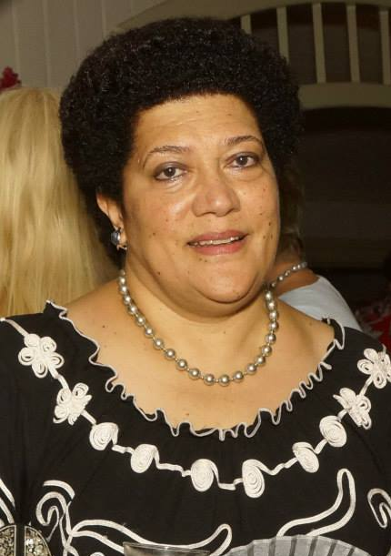 Guests at Australia Day celebrations